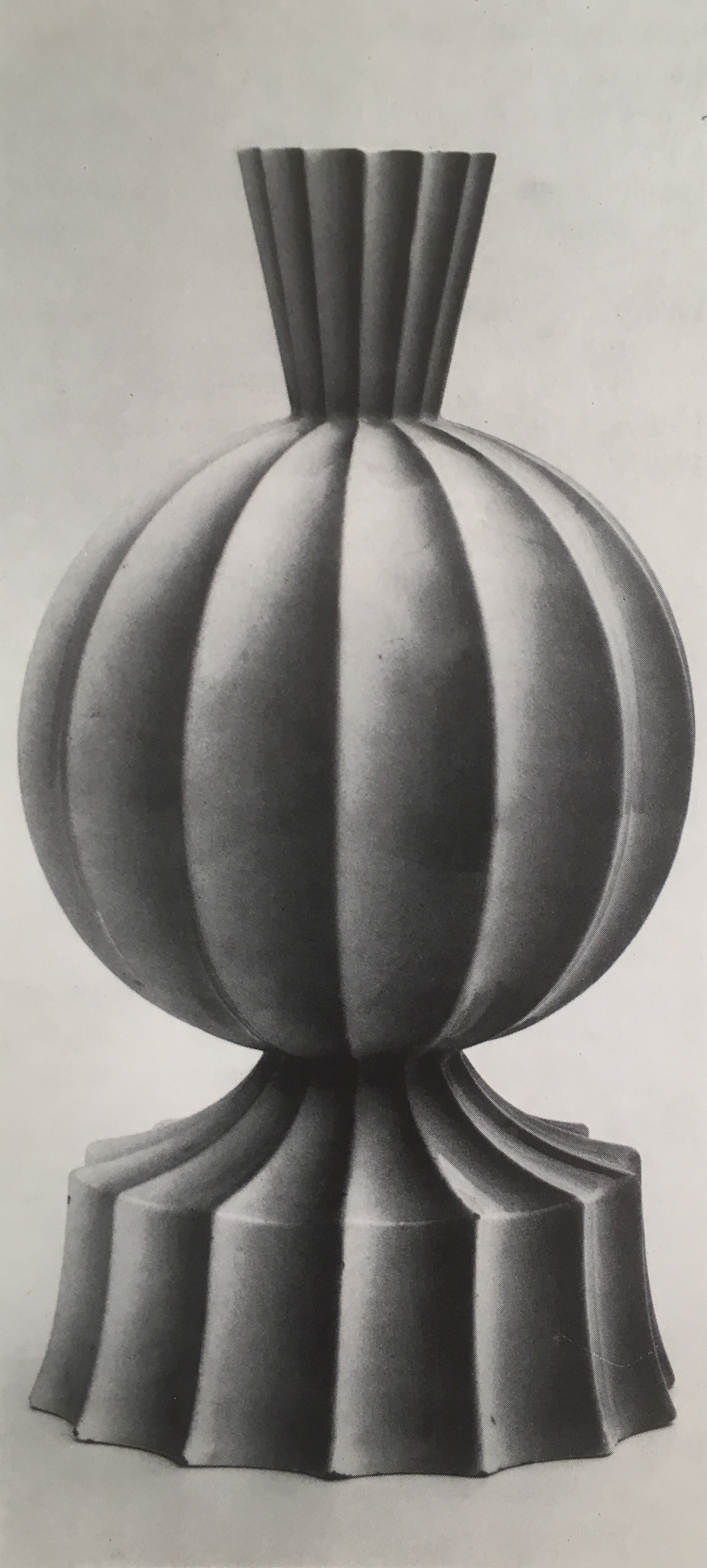 Keramos Lampenfuß